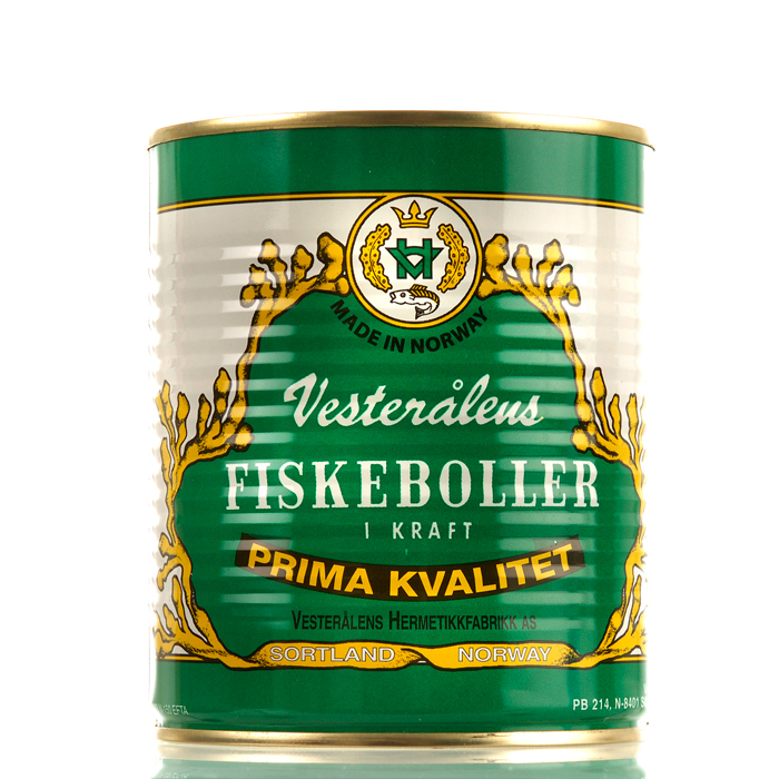 The iconic box from 1912